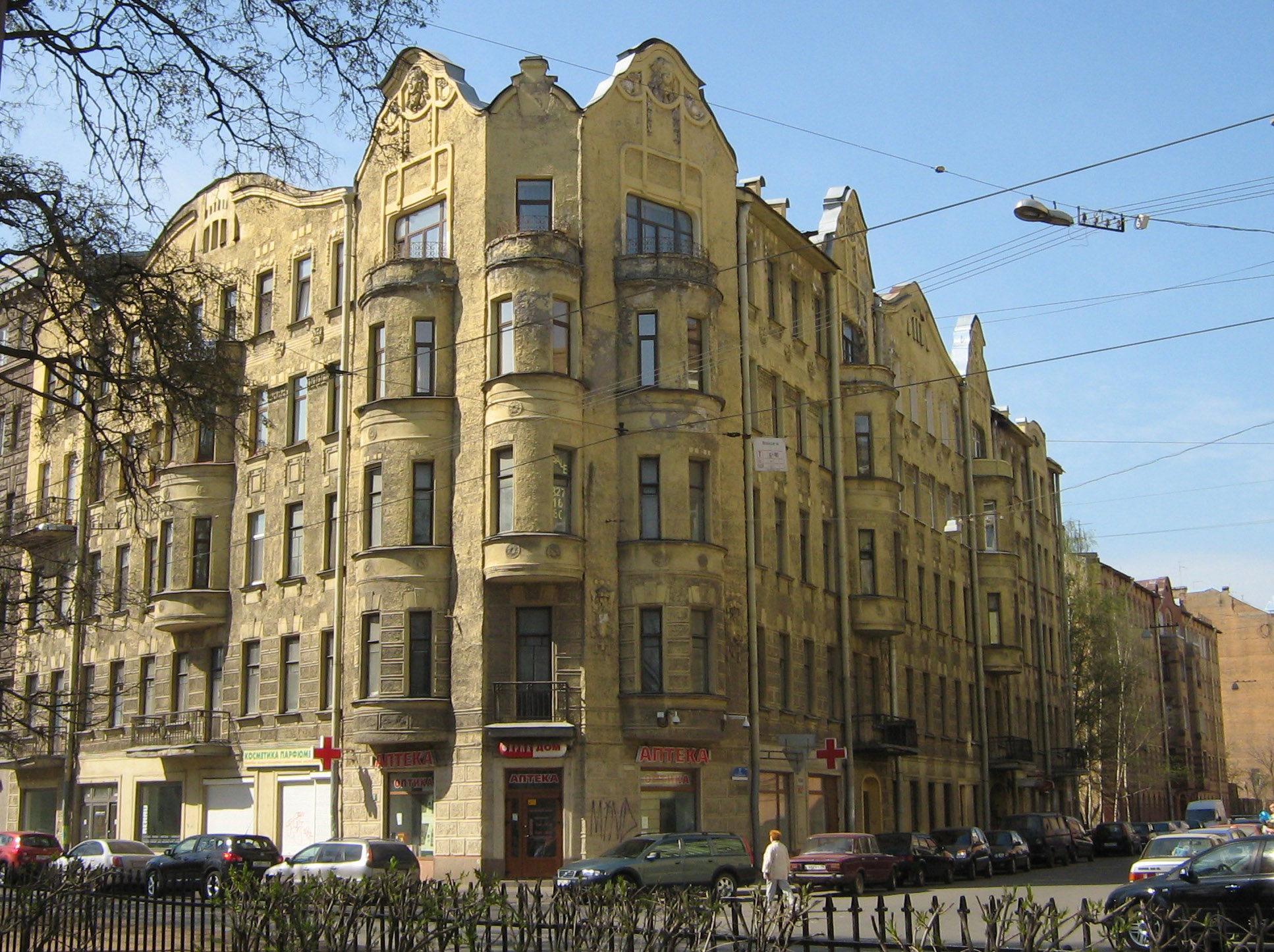 65, Kronverkskiy Prospekt, near the corner of S'ezzhinskaya Street Street (Saint-Petersburg, Russia).